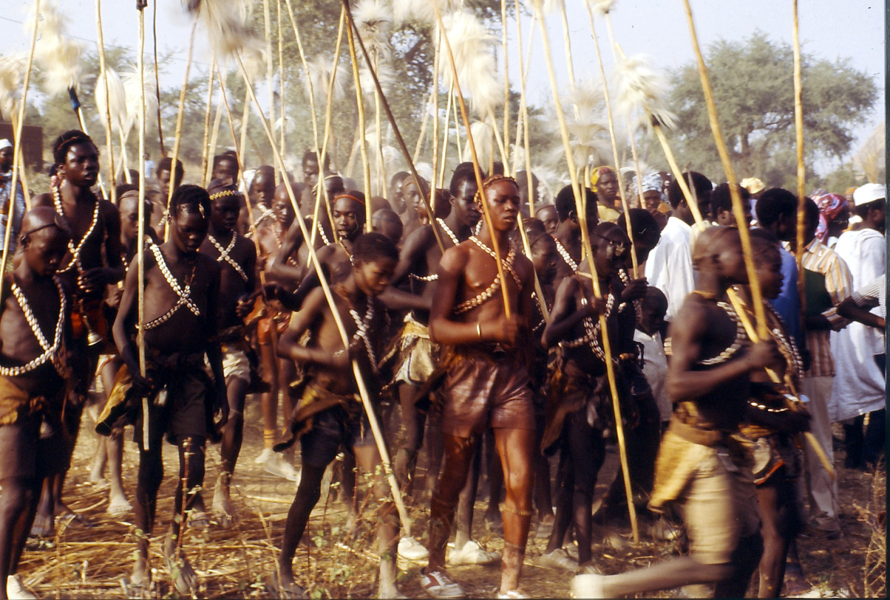 Just initiated boys in Rumsu, Kapsiki. 1995. Colour version of black-and-white photograph Figure 11.3, p. 242 in Walter E.A. van Beek: The dancing dead. Ritual and religion among the Kapsiki/Higi of North Cameroon and Northeastern Nigeria, Oxford University Press 2012. Kauri shells.